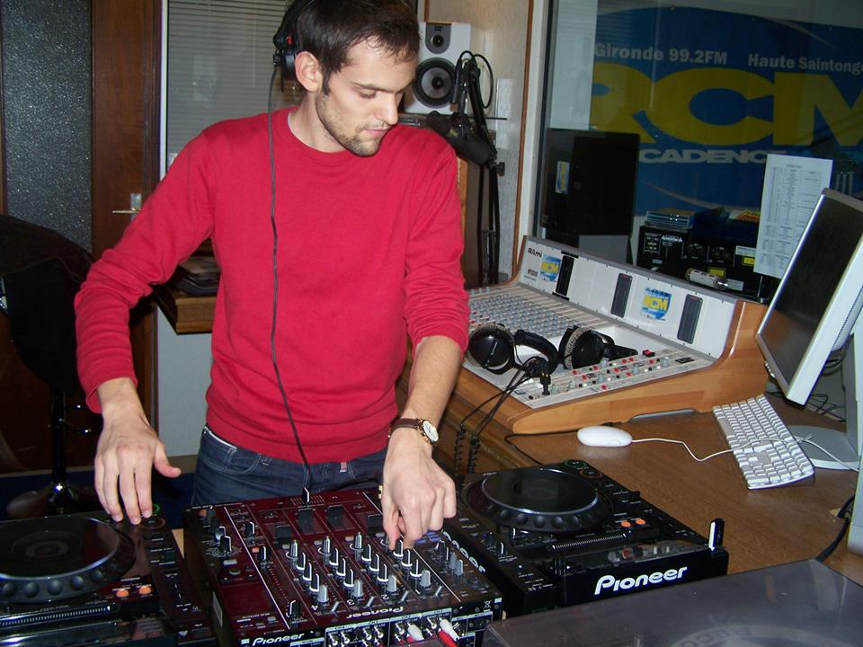 Aron Scott playing at RCM FM (French radio station, 98.4)in 2013, in the program " Electro Club " by Thierry Sorinet with Sonny Zamolo.